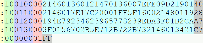 Example of Intel HEX file format.